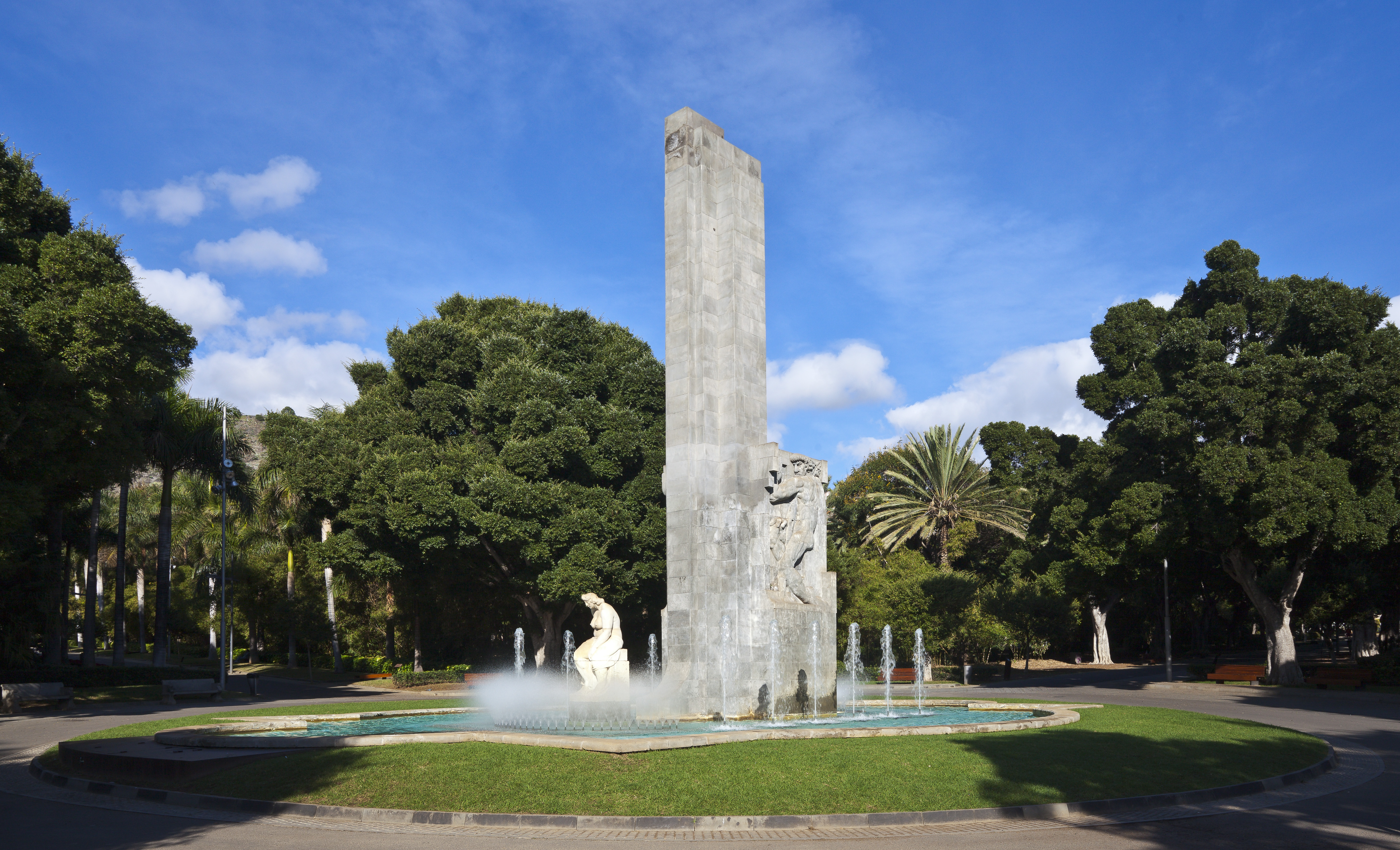 Park García Sanabria, Santa Cruz de Tenerife, Spain